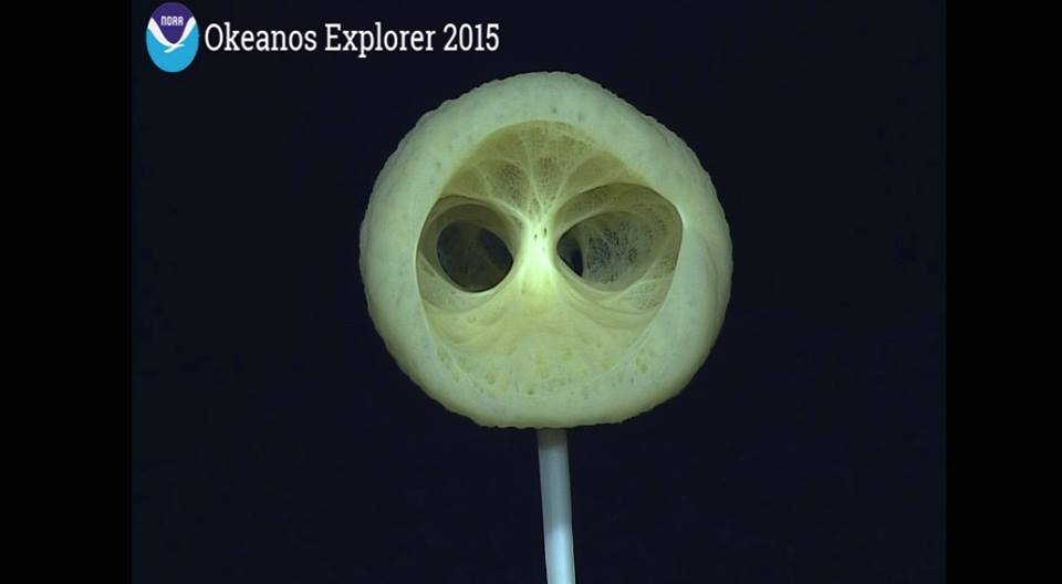 A deep-sea sponge Advhena magnifica observed at Karin Ridge (off Hawaii), about 1960 m.